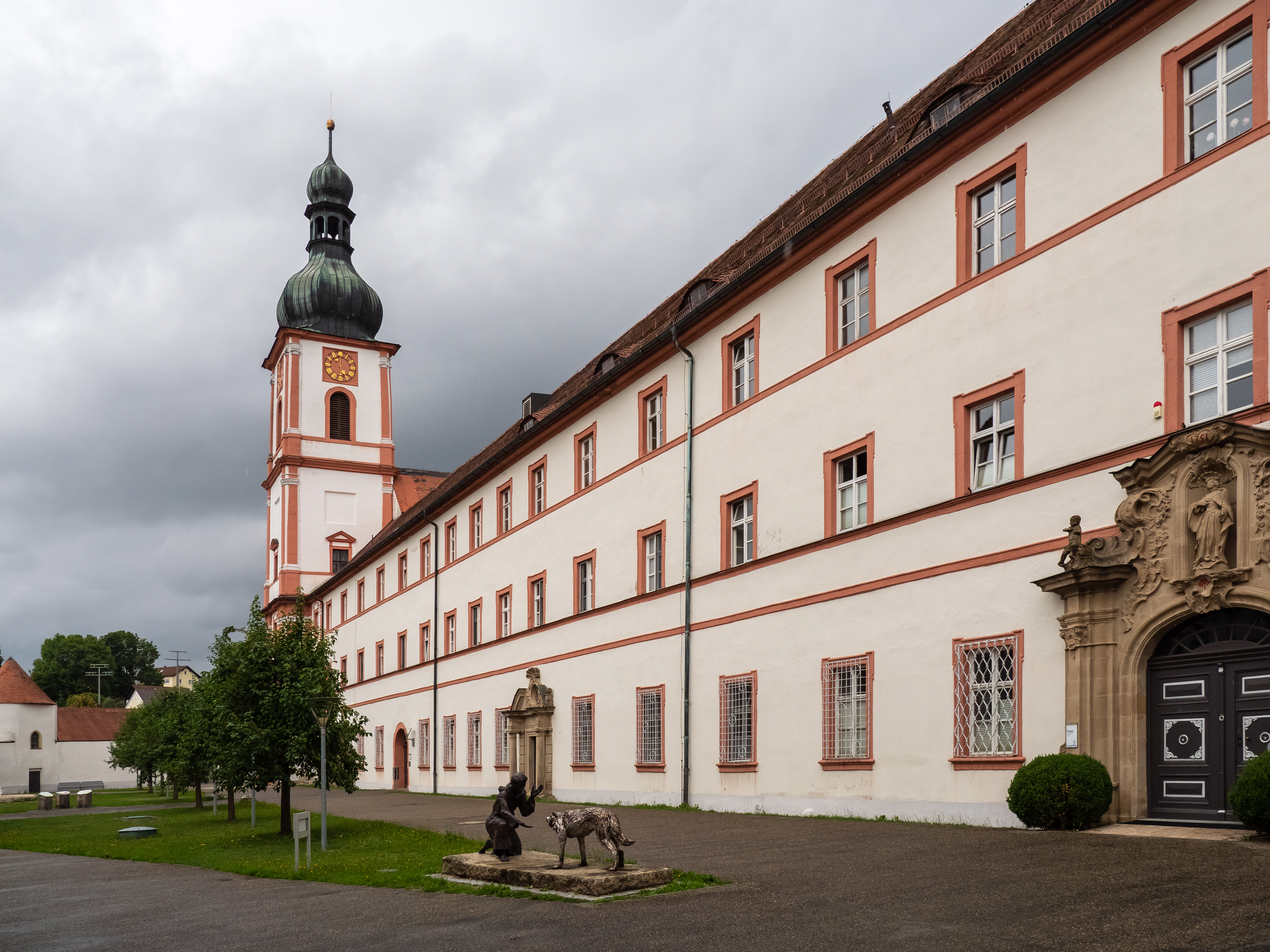 Michelfeld Monastery